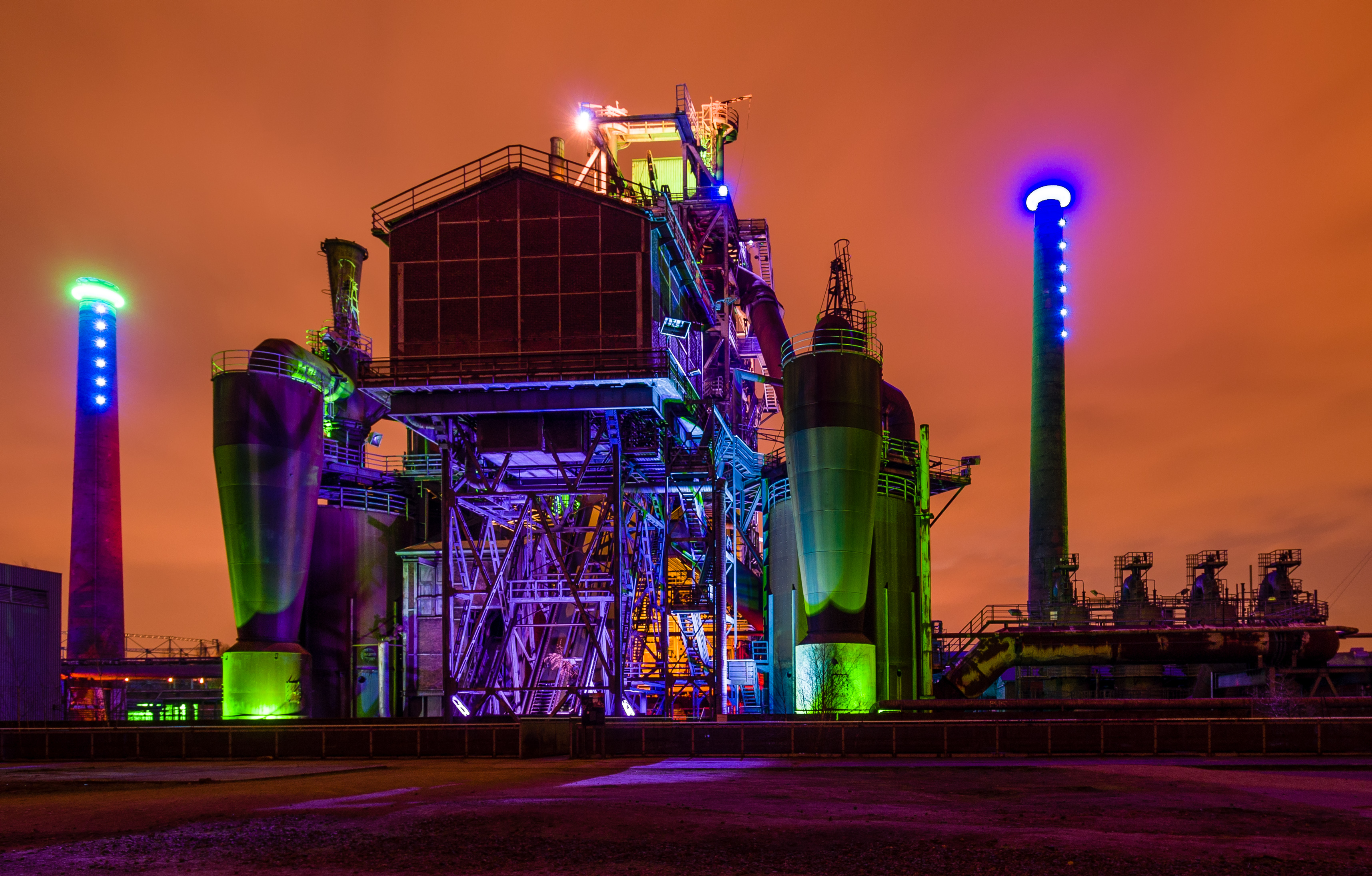 Side view of Furnace No 5 at Landschaftspark Duisburg-Nord (Landscape Park Duisburg North) at night